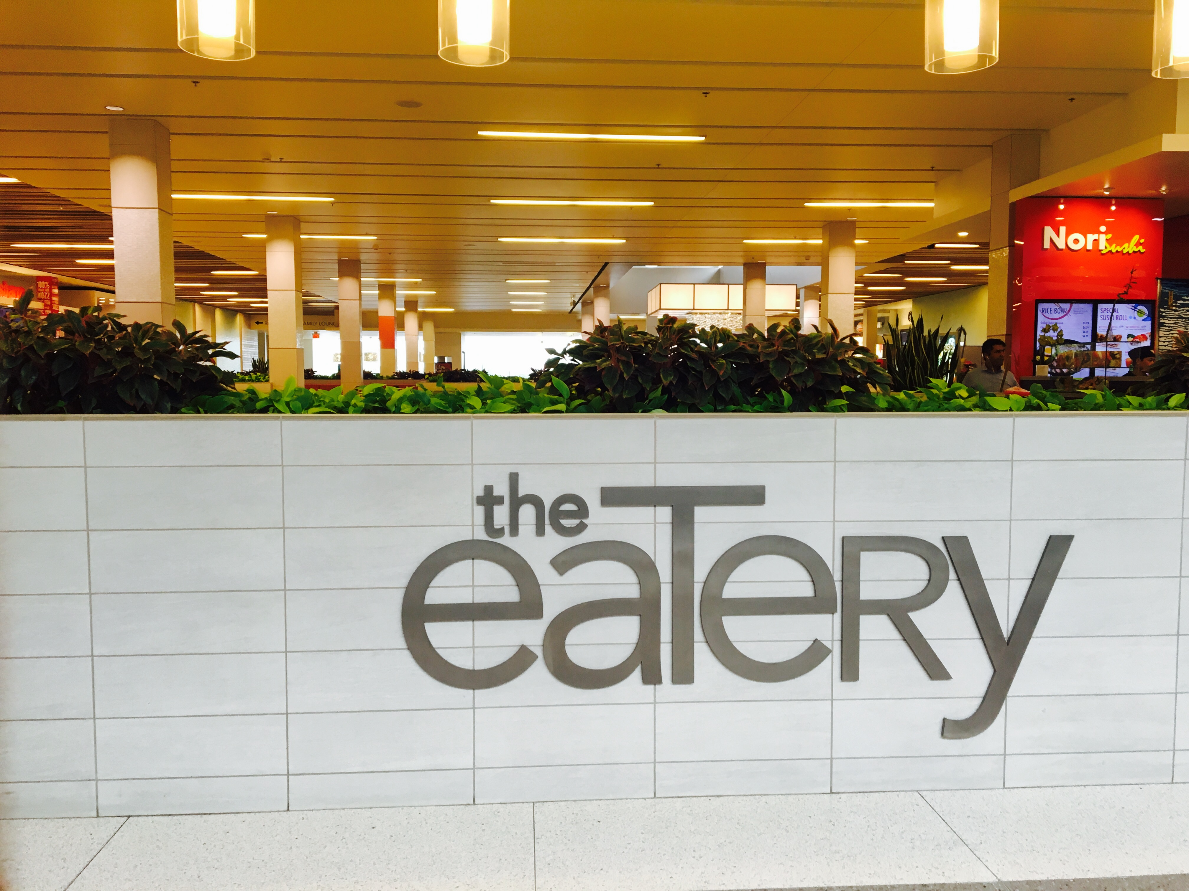 Inside view of the food court at Yorktown Center, Lombard, IL